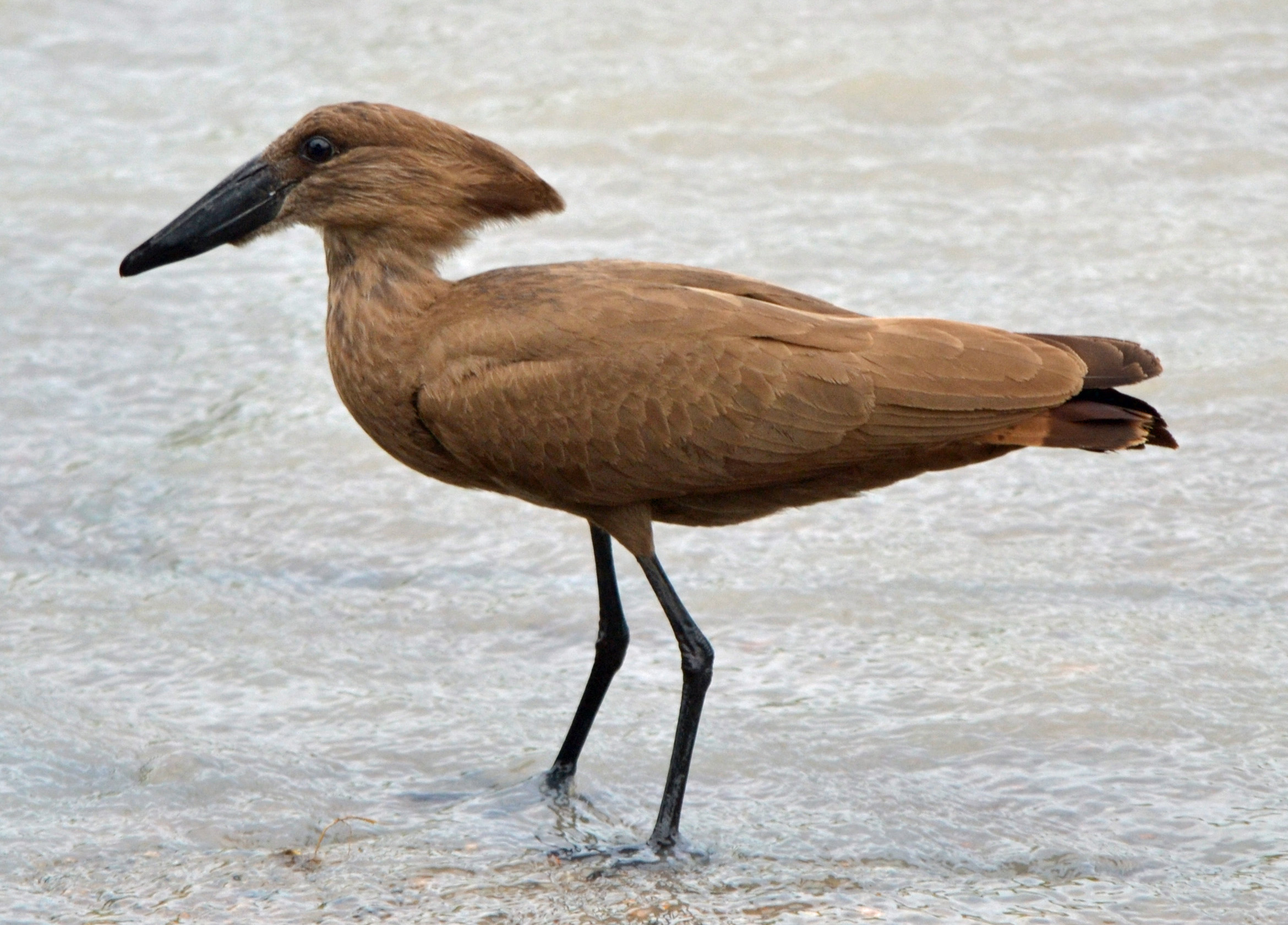 A hamerkop bird standing in a stream in the South Luangwa National Park in Zambia.